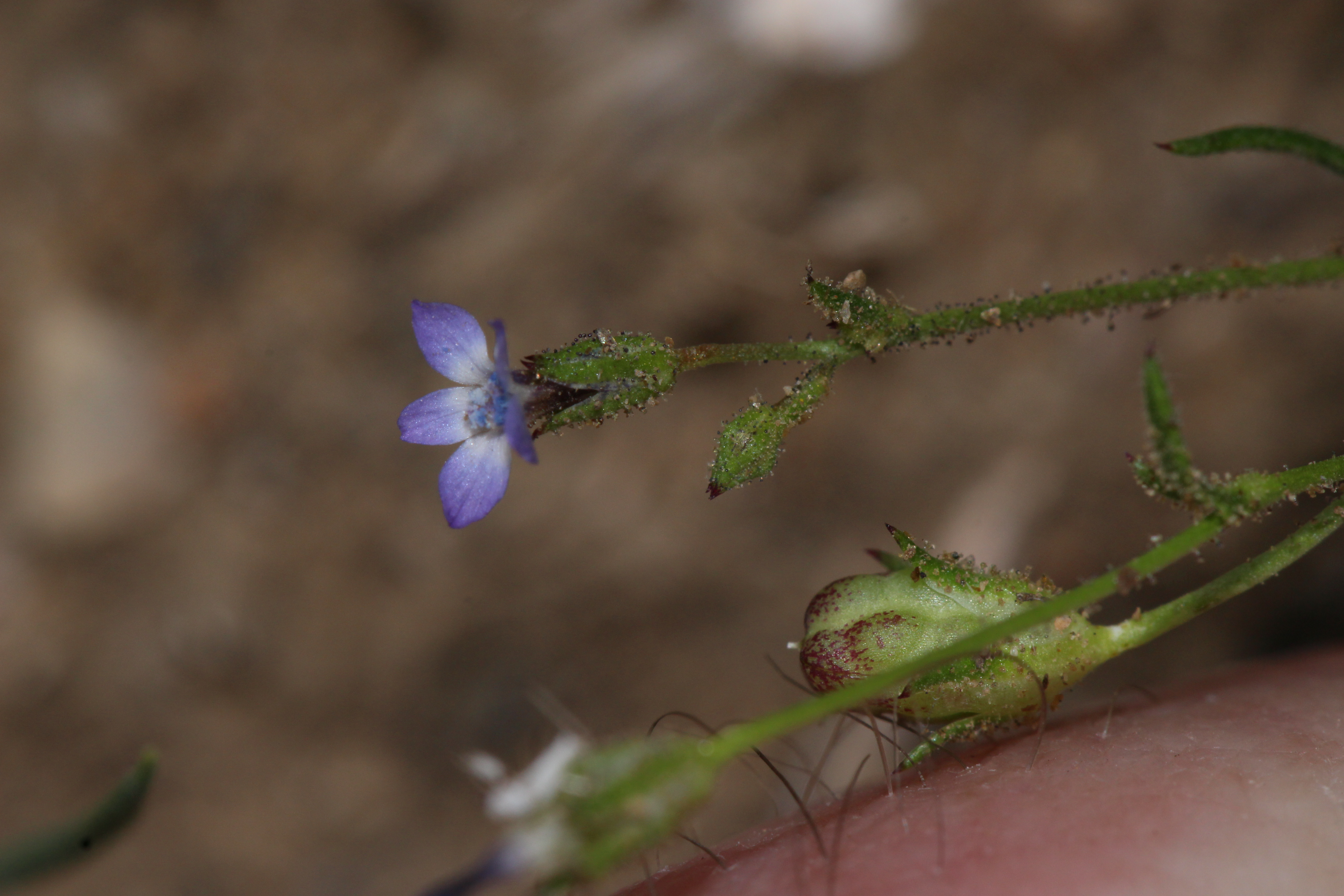 Dense False Gilia Identification by: Linda Edwards and Vern Benhart Viewpoint location: Antelope Valley California Poppy State Reserve, Lancaster, California Viewpoint elevation: 869 meter (2852 ft) Location source: Garmin GPSmap 60CSx Location Datum: WGS84